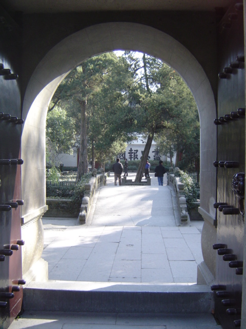 A gateway inside the Yue Fei shrine, West Lake, Hangzhou, China; illustrates traditional Chinese arched gateway and garden. Screen wall at far end (partially obscured) bears inscription 尽忠报国 "serve the country with loyalty", reputedly tattooed on Yue Fei's back by his mother. Photo taken by Sumple on 20/12/2003. As a courtesy, and entirely voluntarily, please notify me if you change this image or its description.